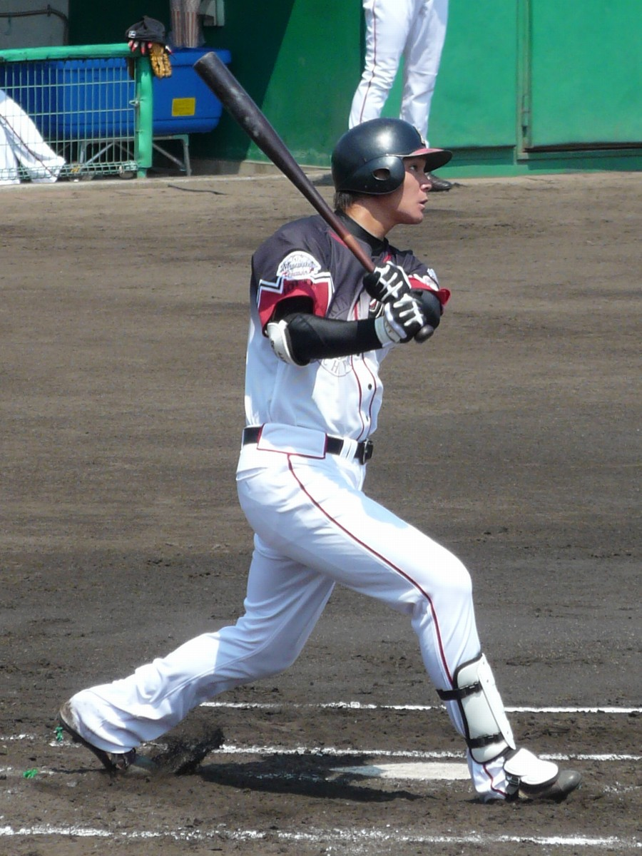 Takumi-Koube